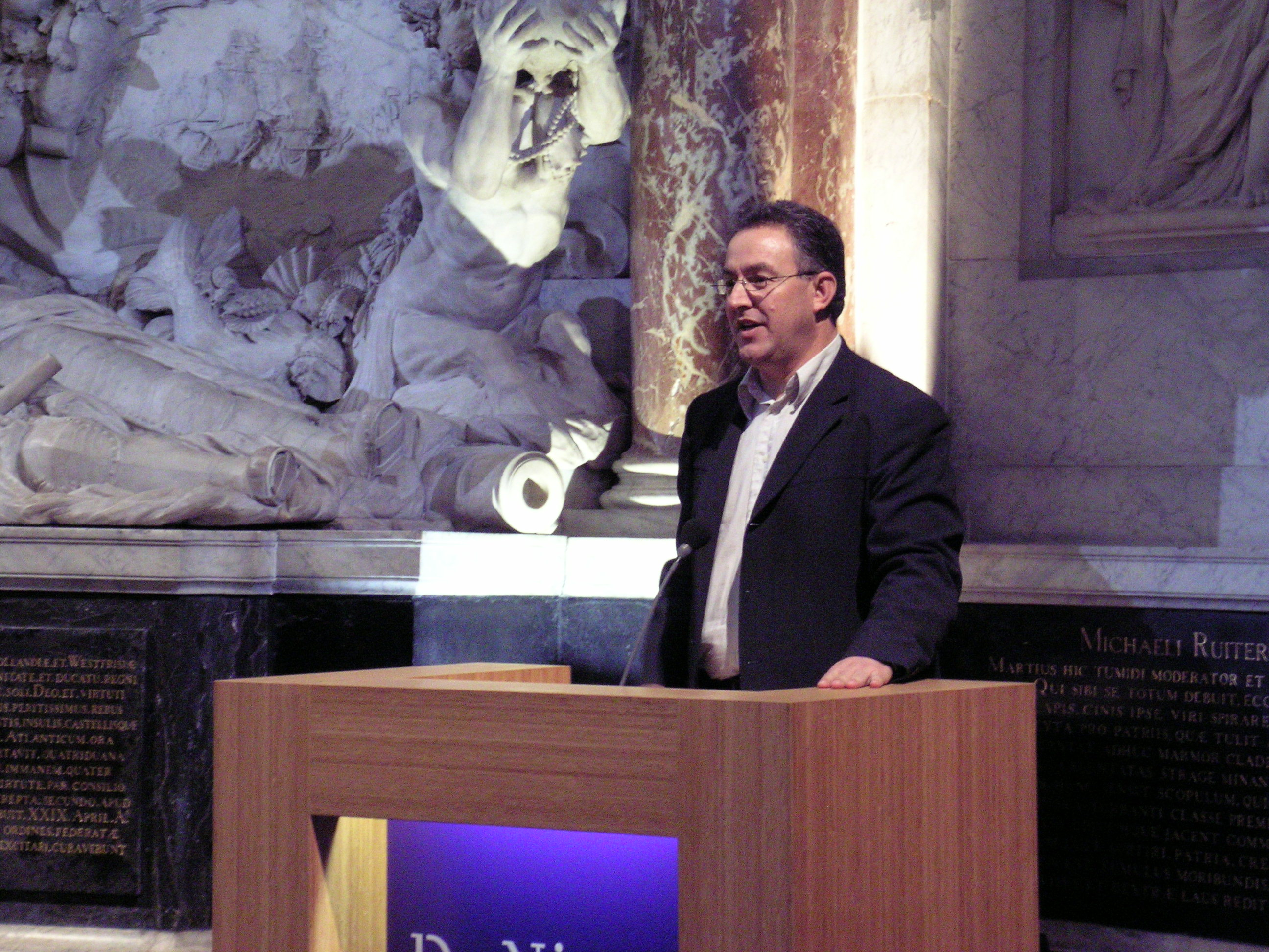 Ahmed Aboutaleb, Amsterdam council member at the manifestation of Hans Dijkstal's Een Land Een Samenleving at 2006-11-11 in the Nieuwe Kerk (New Church) in Amsterdam. Original filename: Dscn6491.jpg